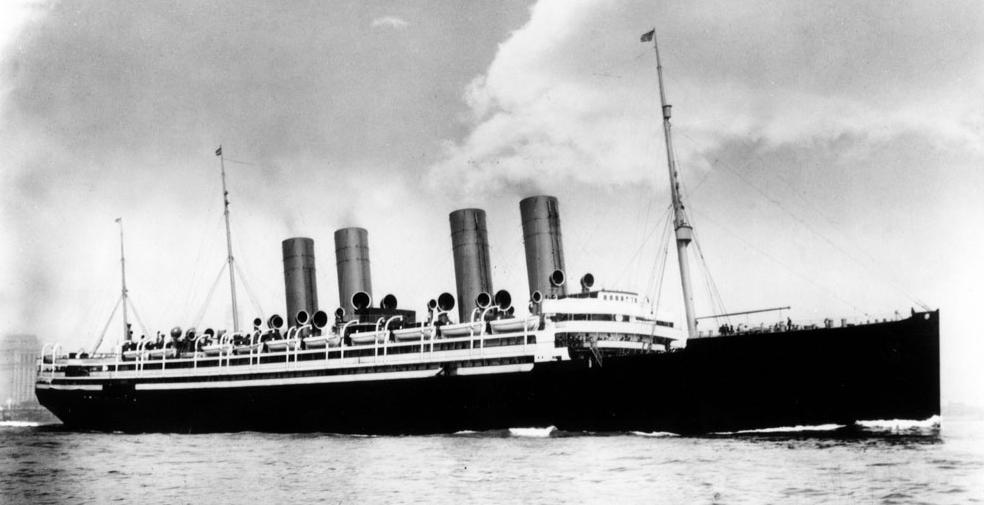 The North German Lloyd's, SS Kronprinzessin Cecilie in New York in full view